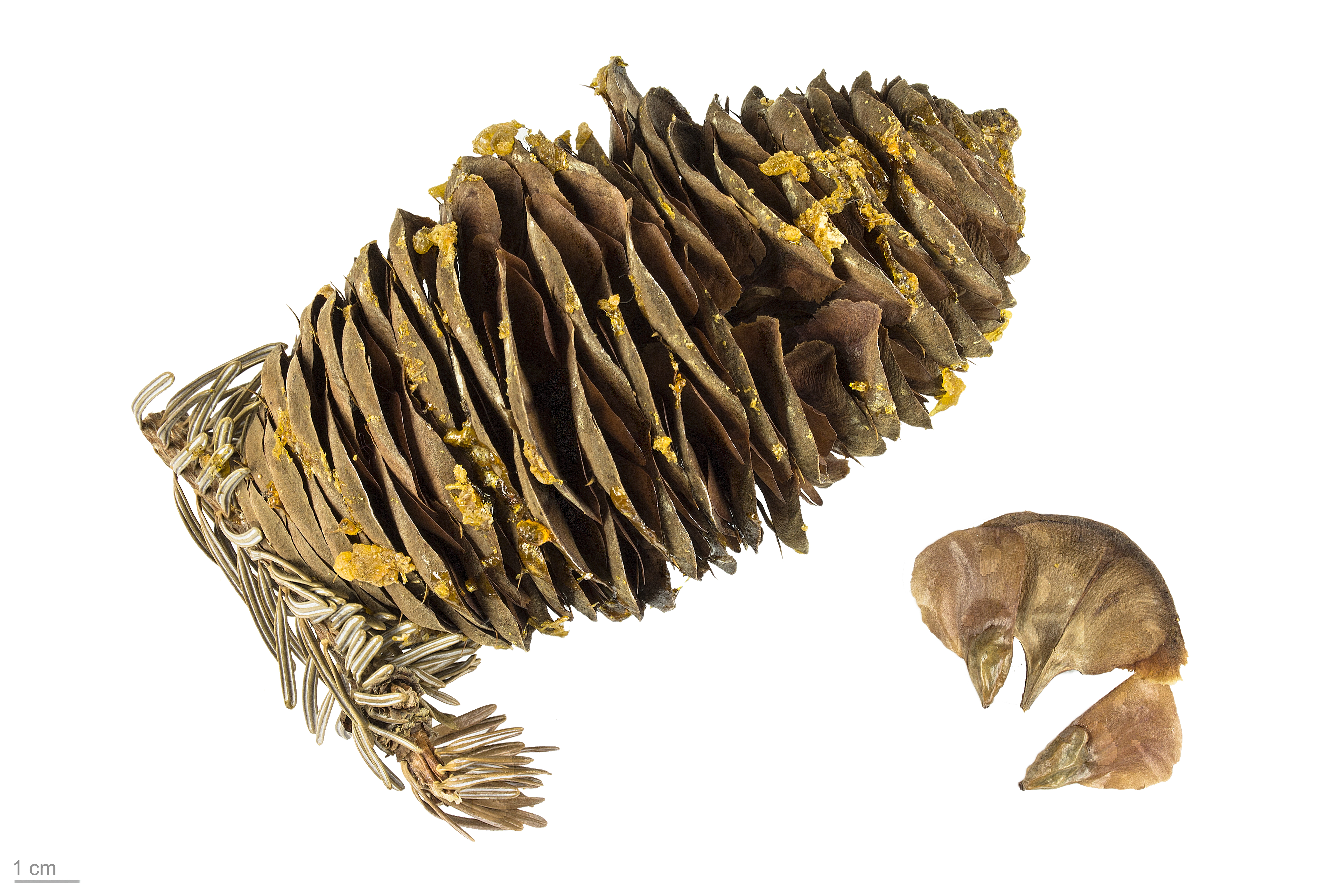 Silver Fir, cones and seeds